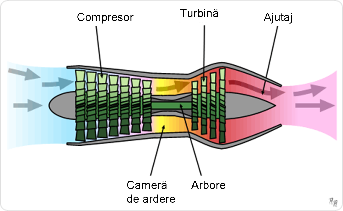 Schematic diagram of the operation of a axial flow turbojet engine. Drawn using XaraXtreme by Emoscopes 04:25, 14 December 2005 (UTC) Translated by Giku